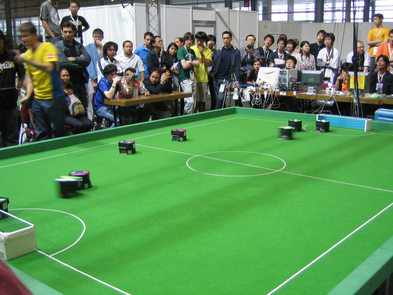 RoboCup.